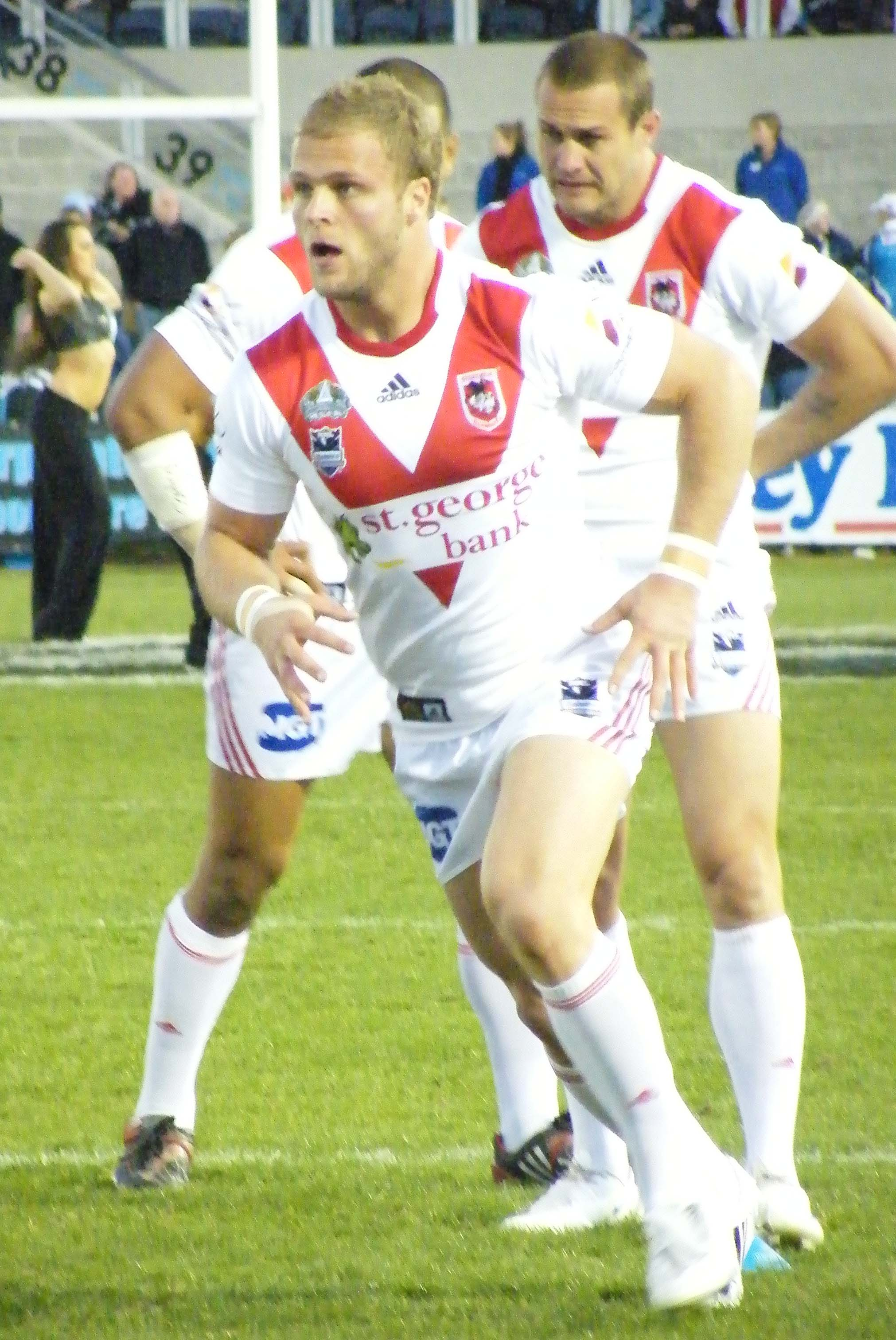 St George Illawara prop Jarrod Saffy